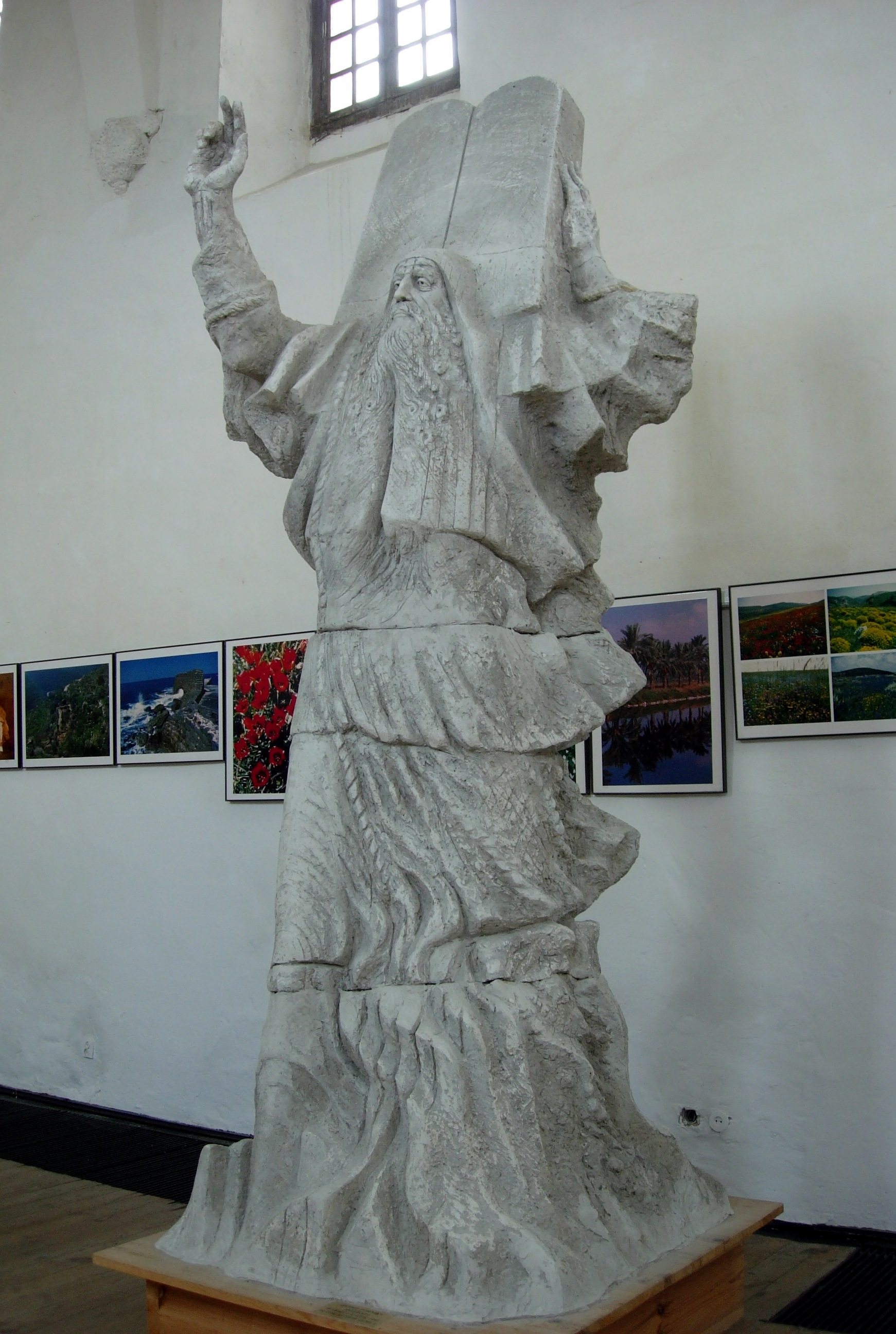 The sculpture of Moses in the synagogue in Szydłów, Poland